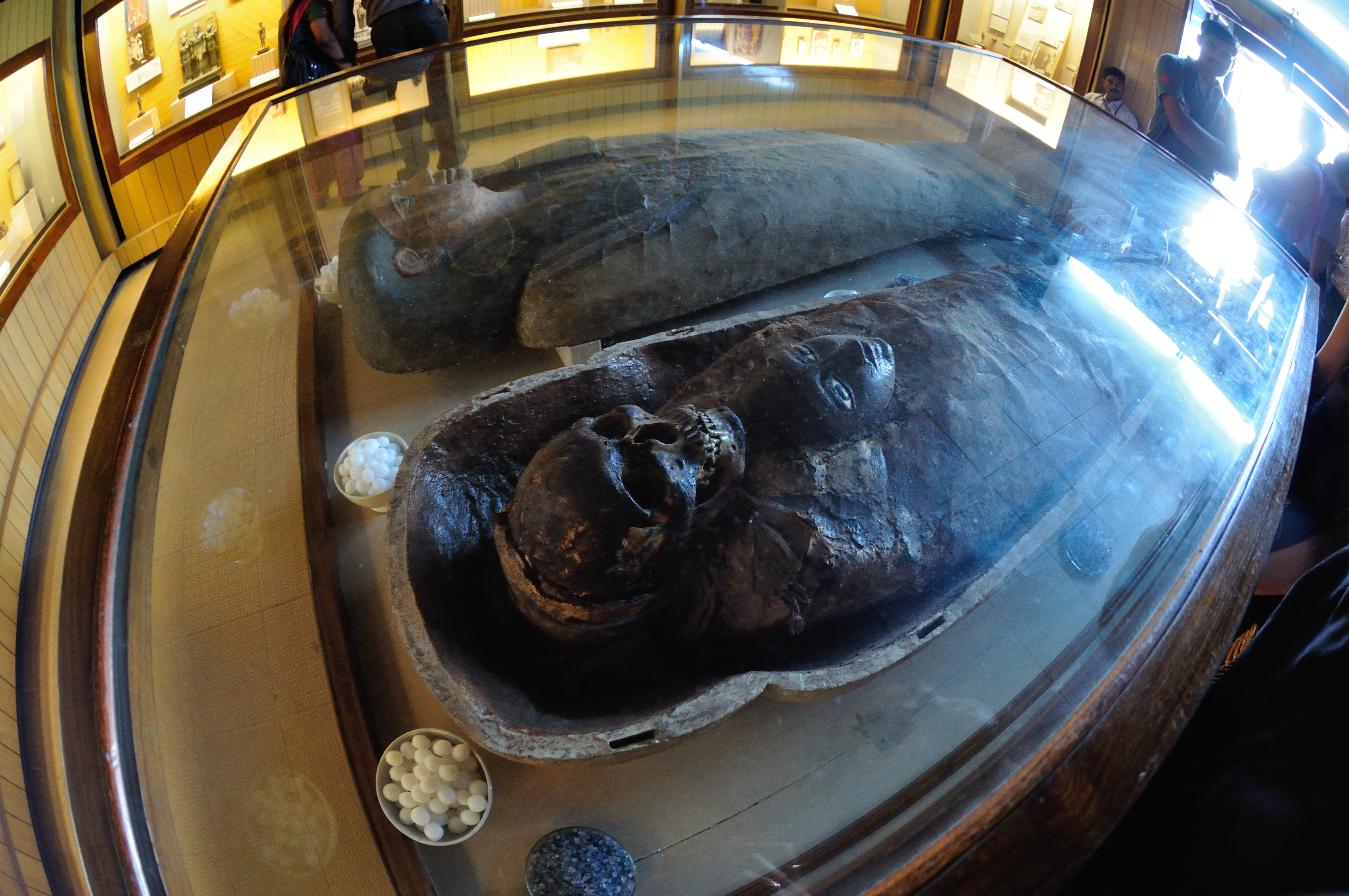 Photographed in Kolkata.